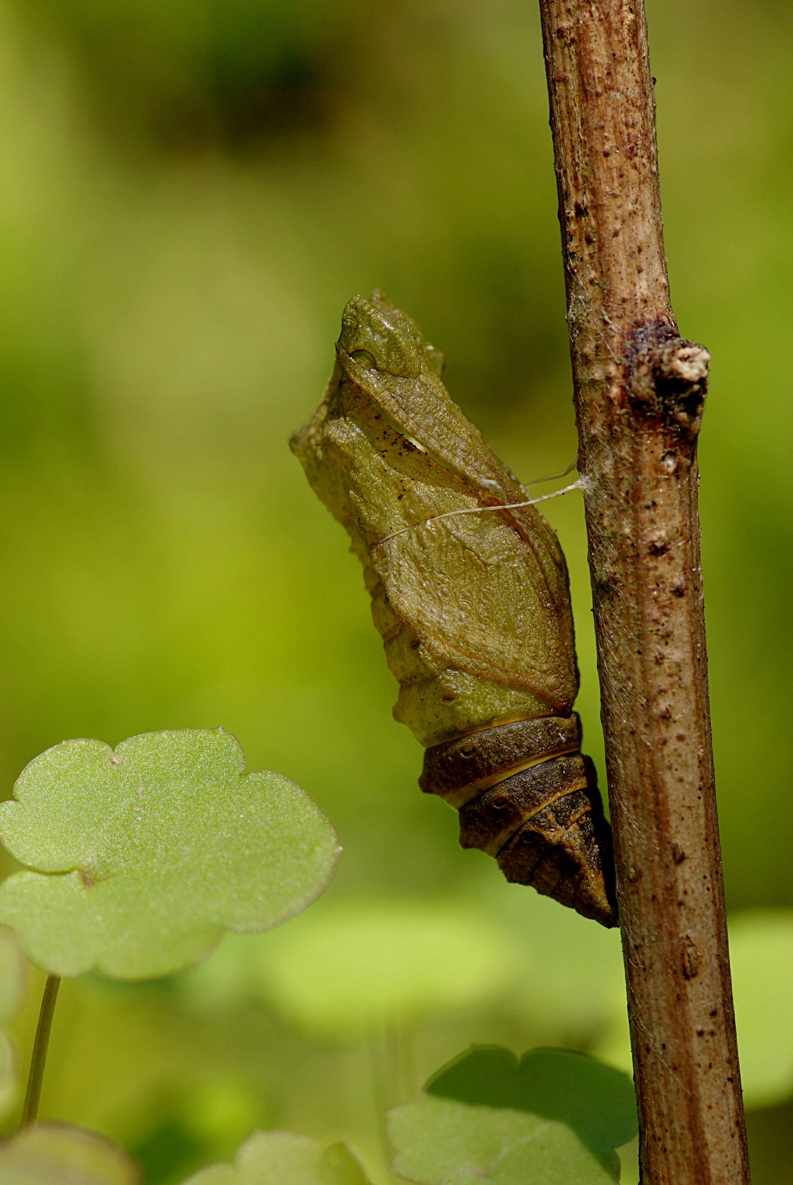 Chrysalis empty of Papilio machaon after émergence, Normandie France